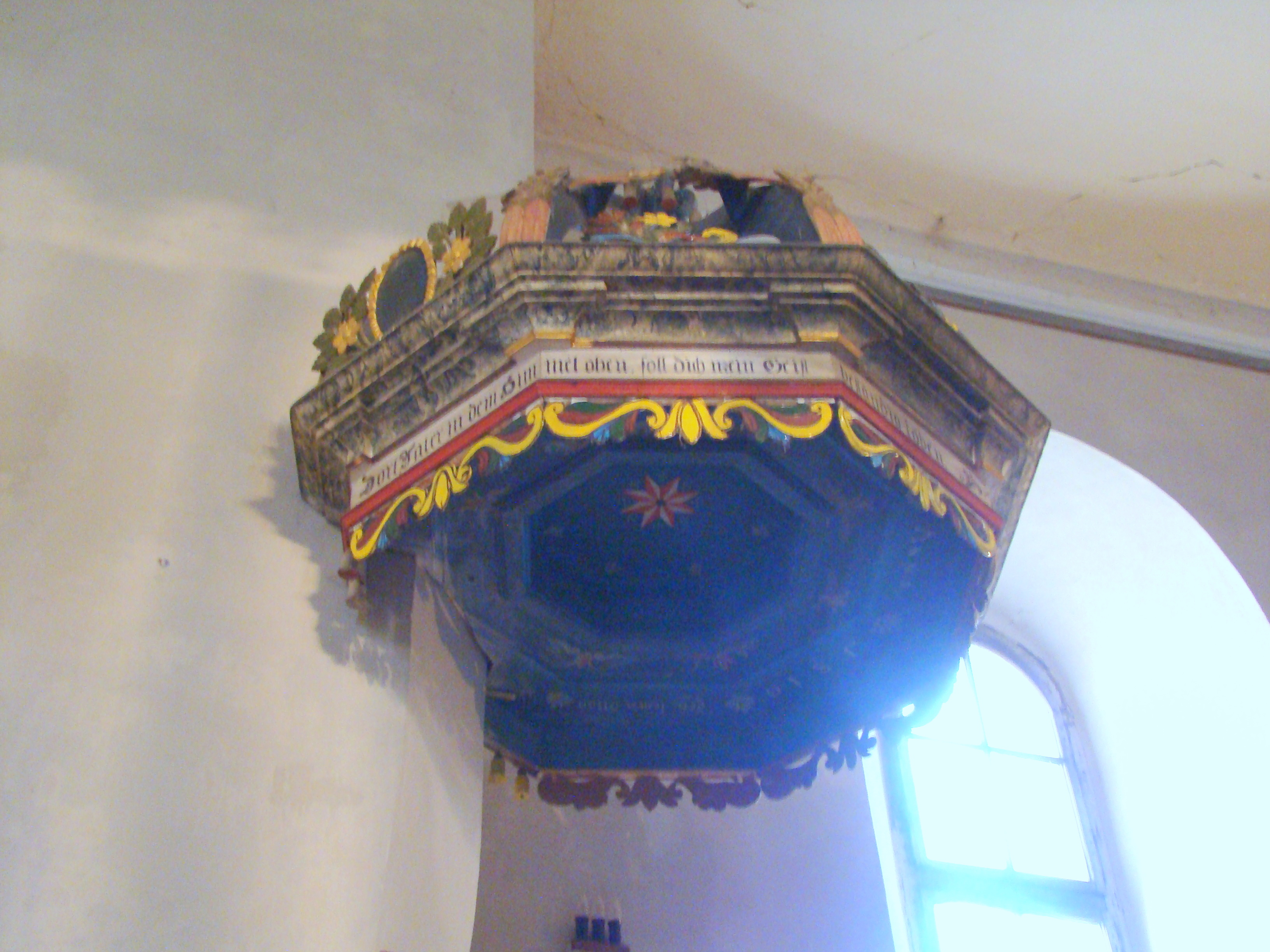 Fortified church in Măieruș, Brașov County, Romania